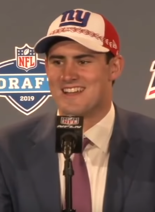 Daniel Jones following the NFL Draft in an interview, by Fox Sports